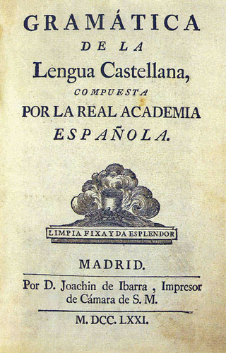 Title page of the first edition of the Gramática de la lengua castellana, Madrid 1771.